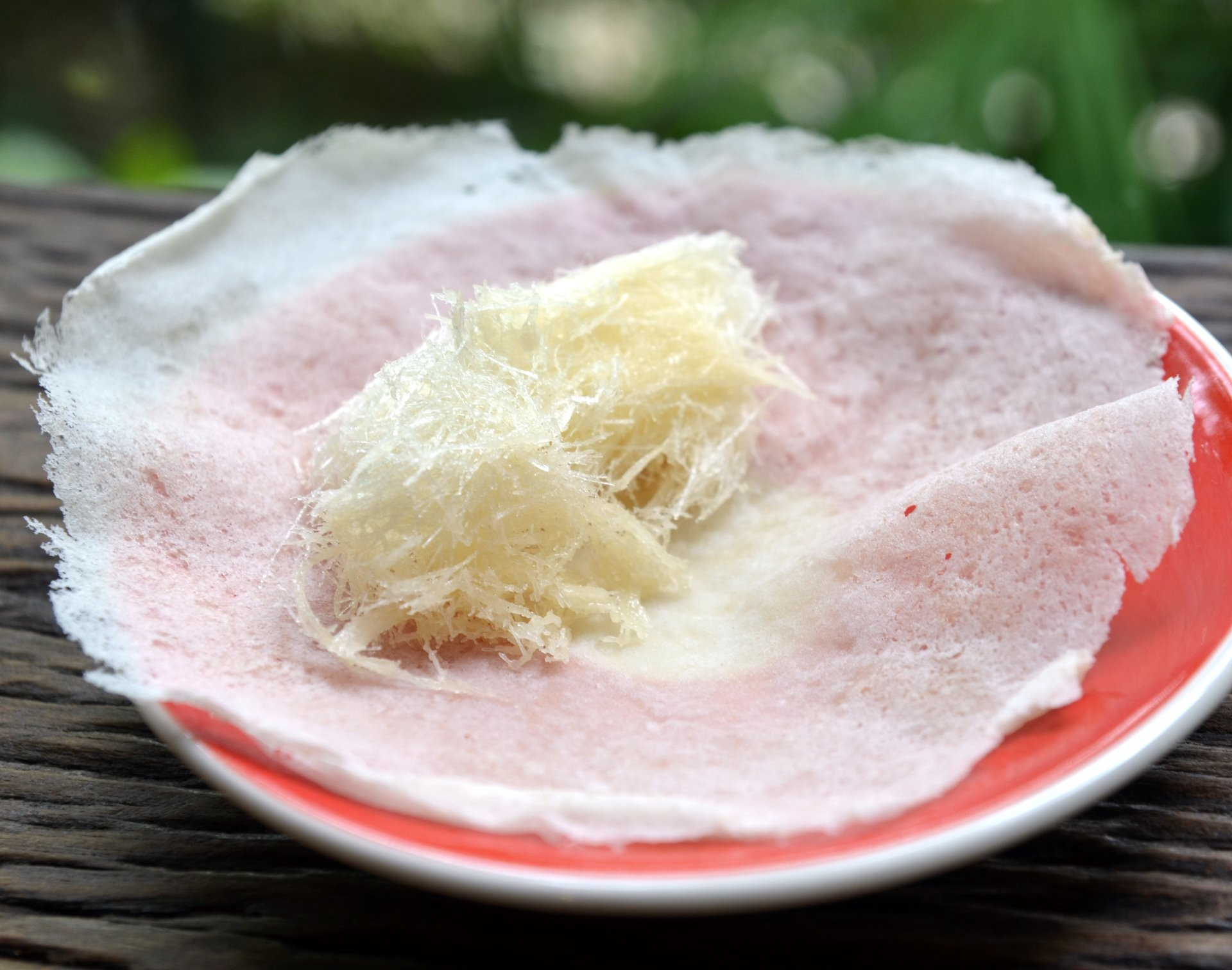 Roti sai mai (Thai script: โรตีสายไหม): small and thin pancakes used as a wrapper for a kind of candy floss/cotton candy. It is extremely sweet. The above image was made in Chiang Mai, Thailand. This image shows how the thin pancakes are made.